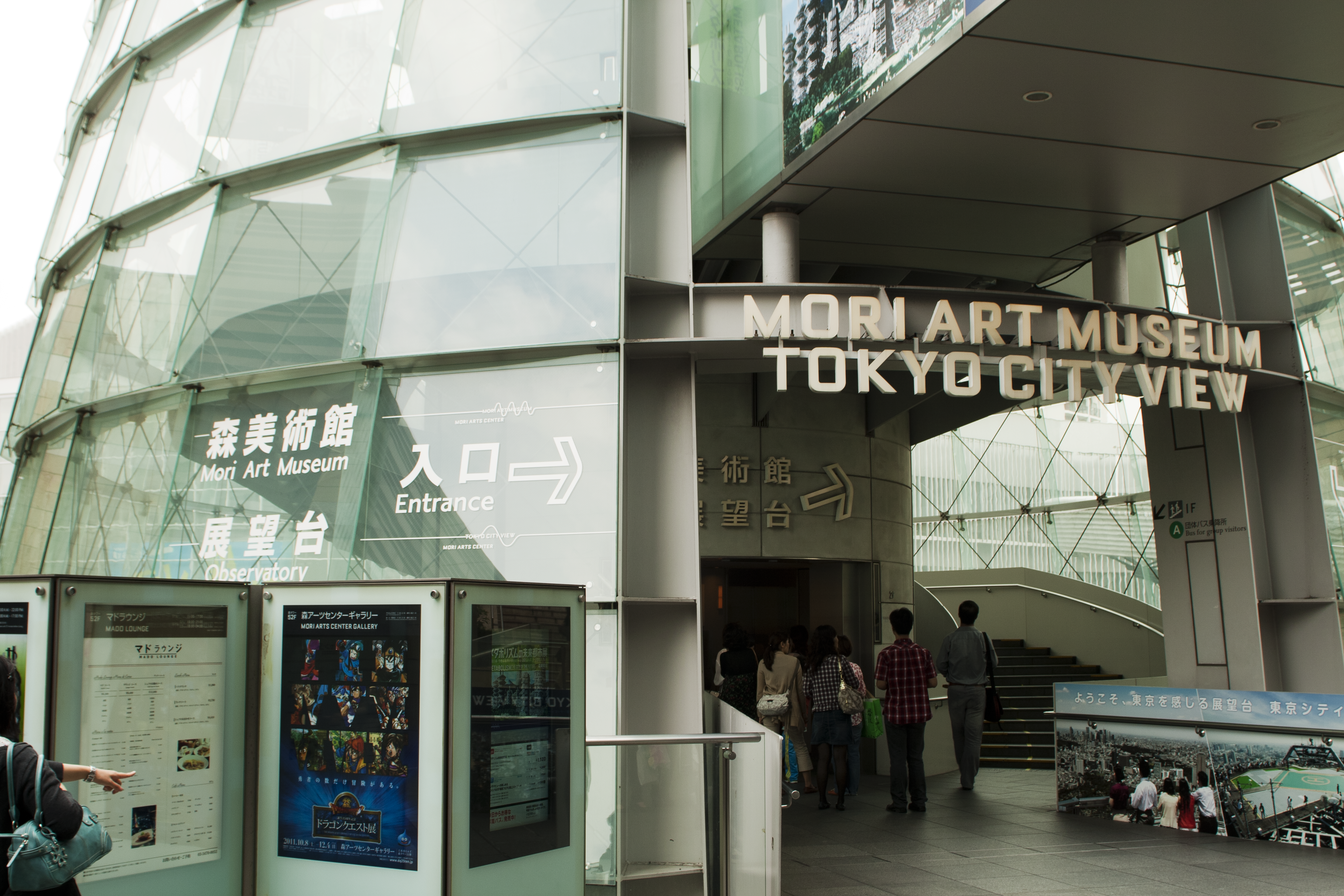 The main entrance to the Mori Art Museum in Tokyo